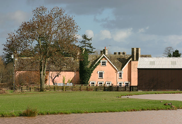 The Dderw and Pond The ancient farmhouse, the Dderw and pond, as seen from the A470.